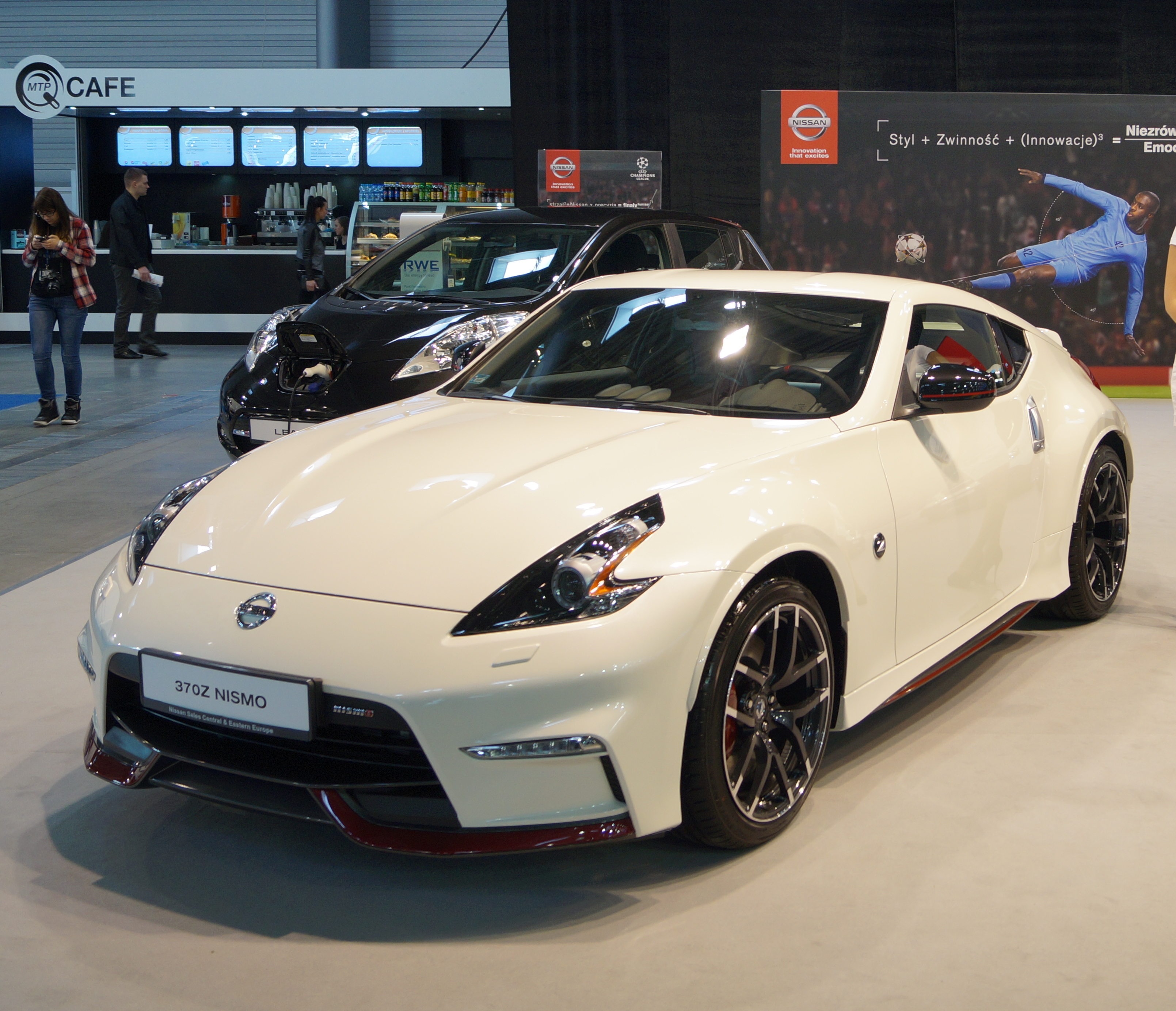 The making of this document was supported by Wikimedia Polska Association, within Wikigrant no. WG 2015-19. Nissan 370Z Nismo na Motor Show Poznań 2015